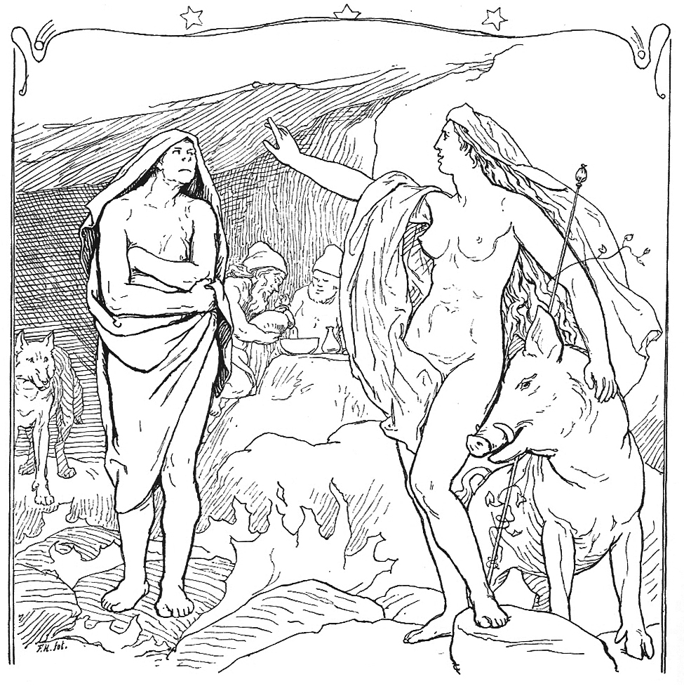 The goddess Freyja is nuzzled by her boar Hildisvíni while gesturing to Hyndla, as attested in Hyndluljóð. Image appears as an illustration for Hyndluljóð.